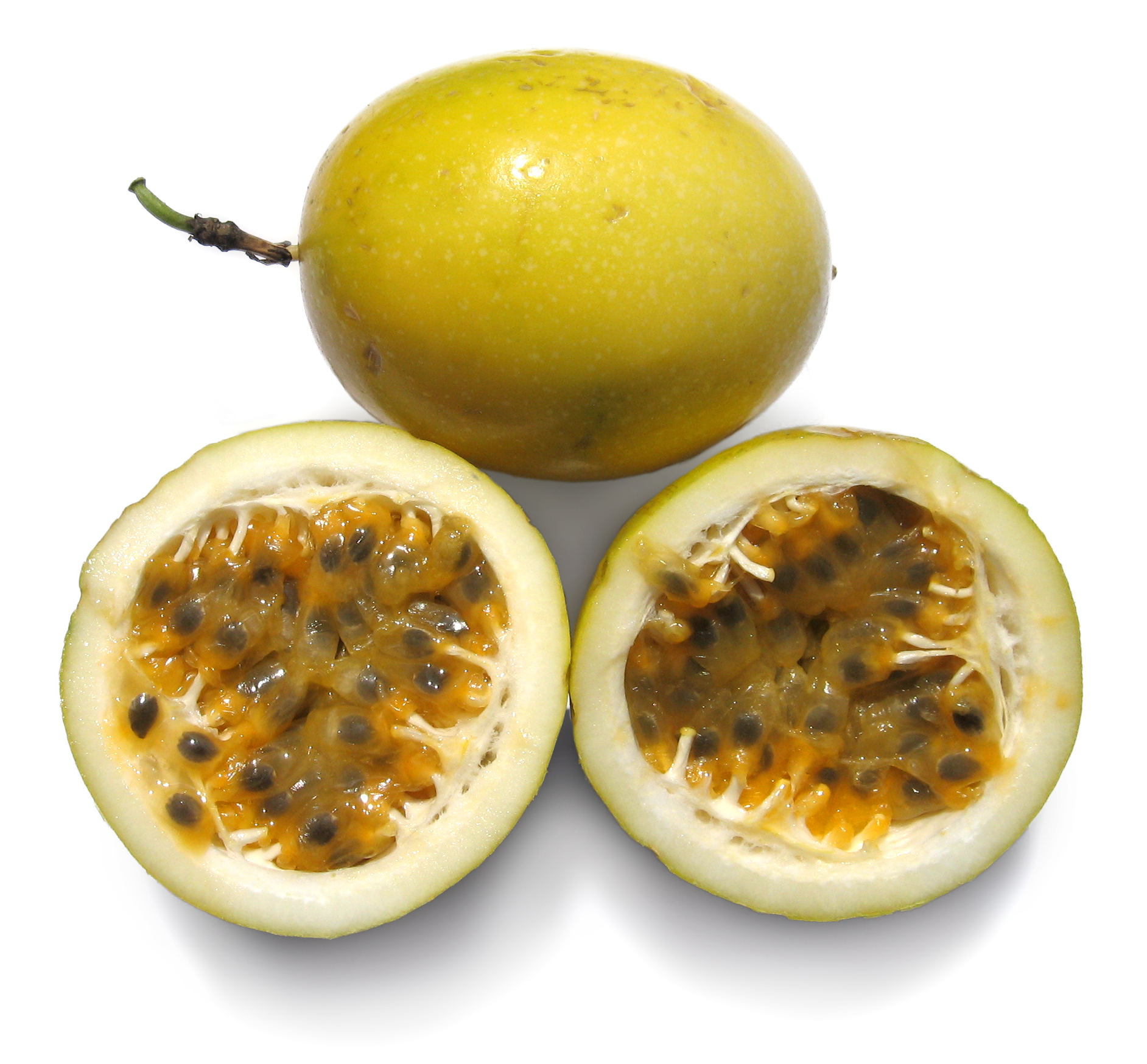 Two ripe yellow passion fruits, one of them opened to show the edible seeds. Picture taken by Fibonacci.